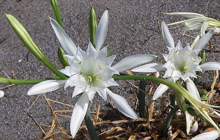 Pancratium maritimum at Kızılırmak Delta